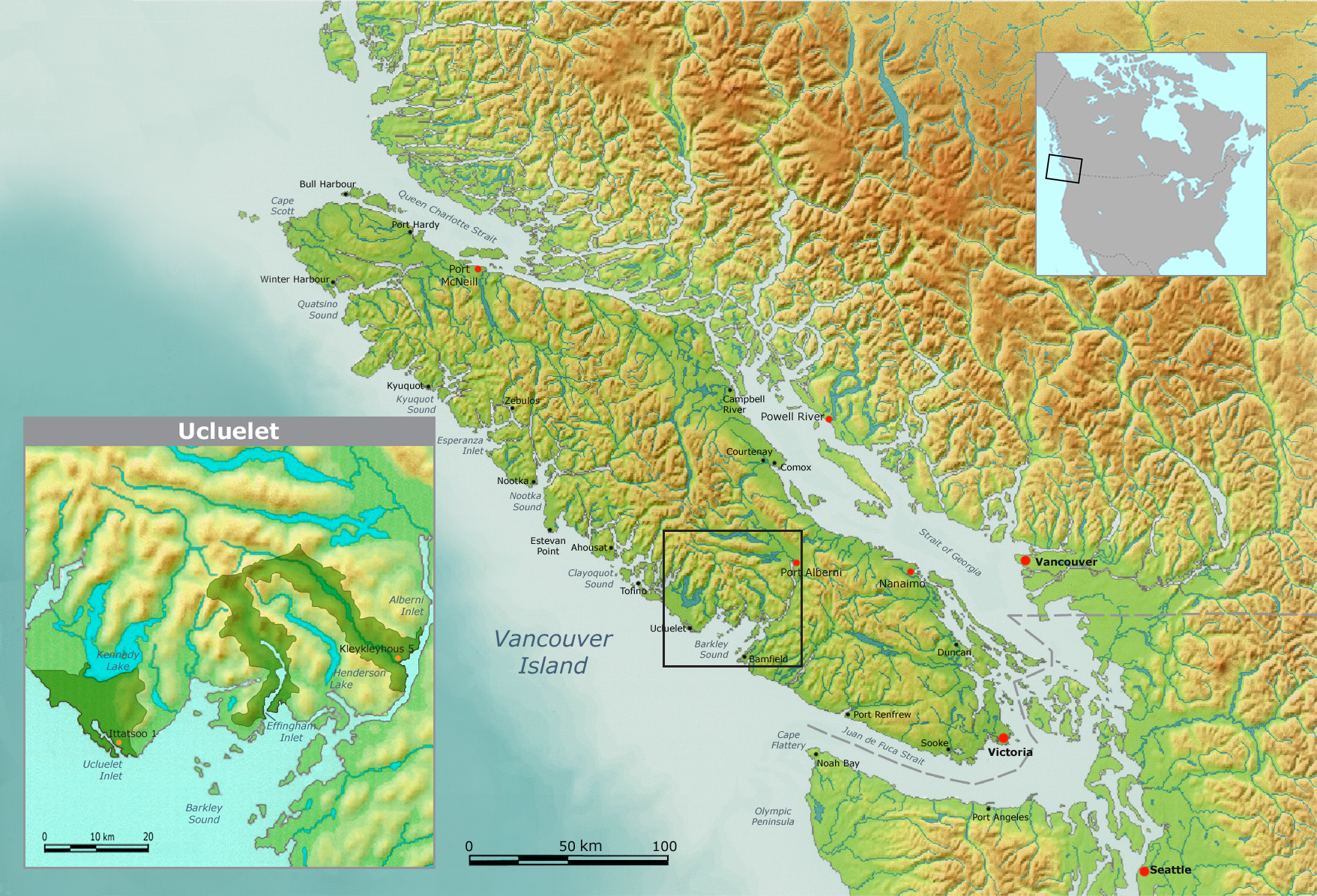 Map of Ucluelet tribal territory.